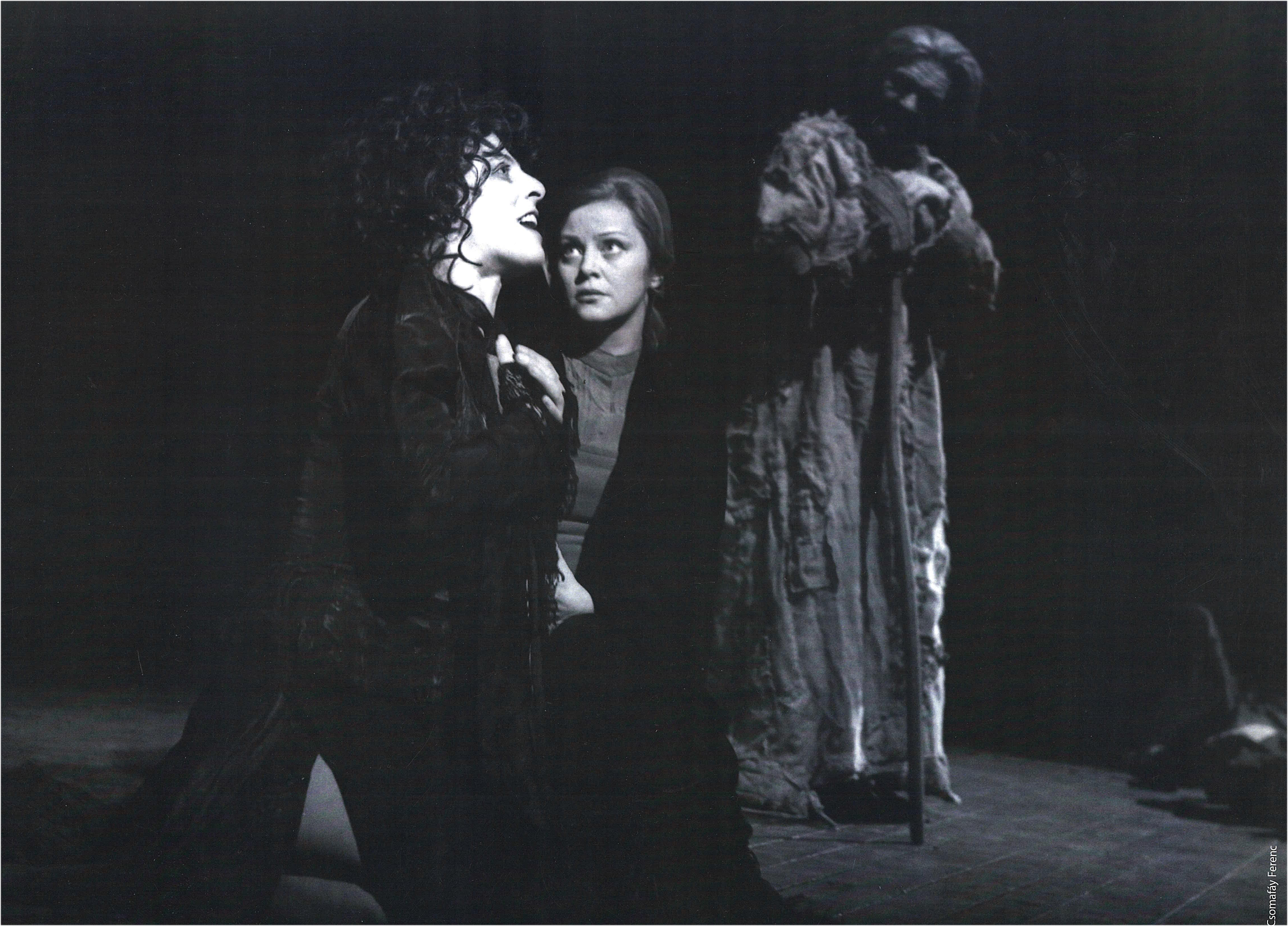 Anna Széles (1942–) a Hungarian actress from Romania.